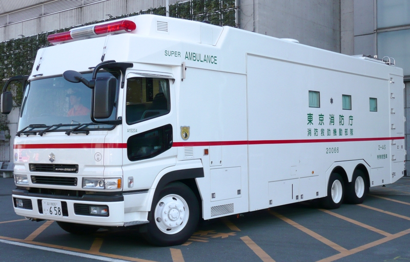 Ambulance bus